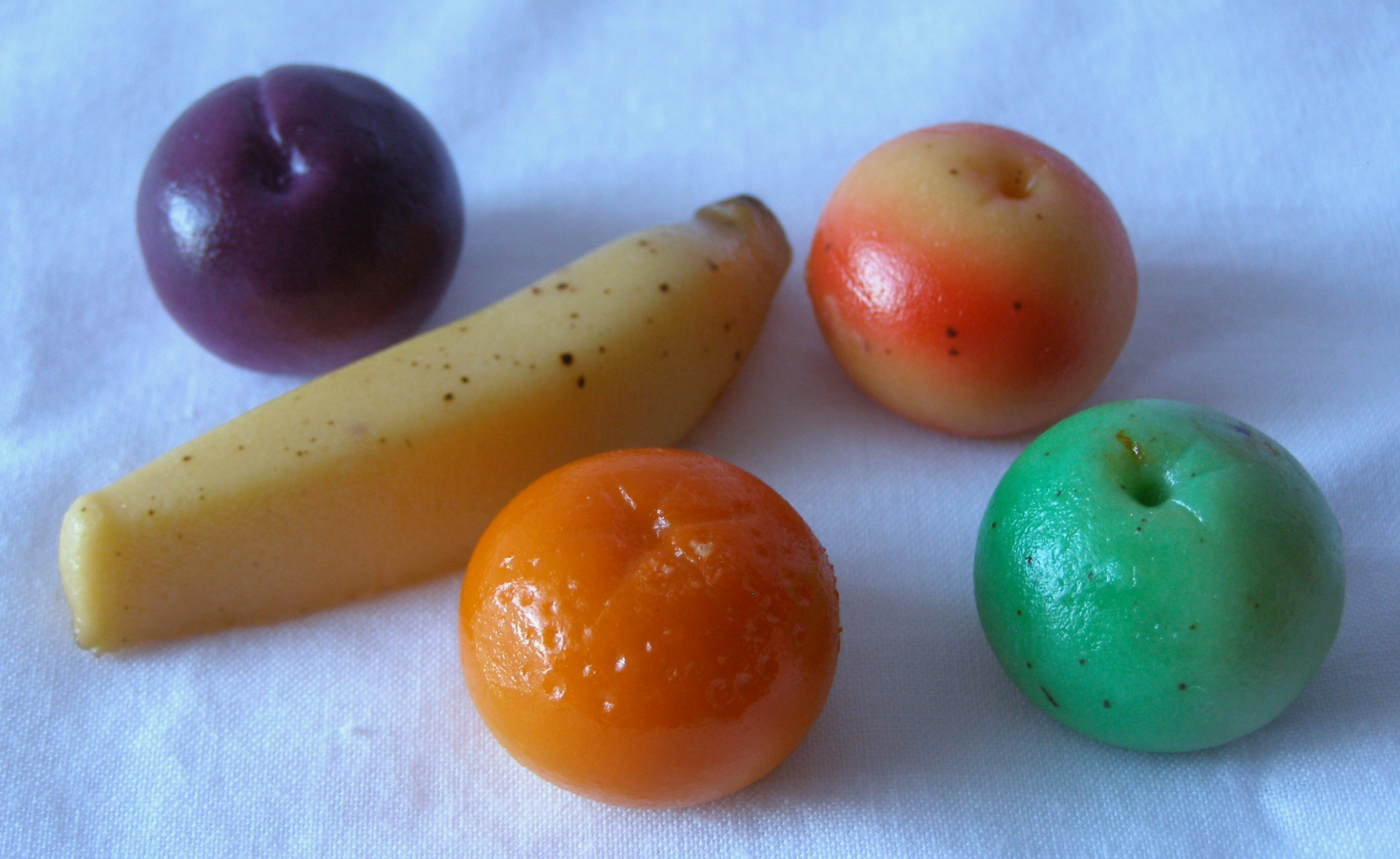 Fruit shaped Marzipan